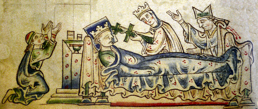 Louis of France ill in bed. Queen touches his head with a double cross.